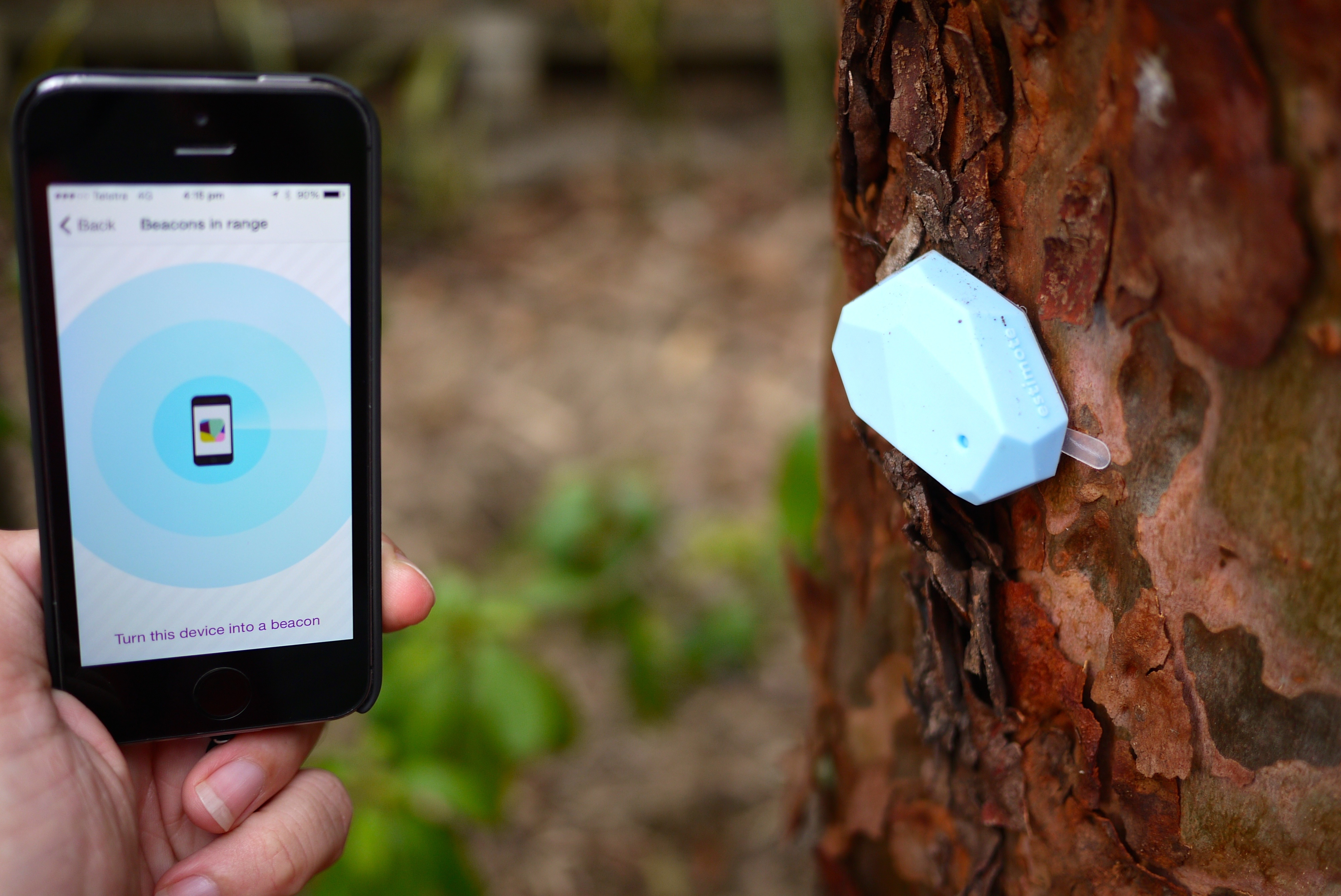 beacons by jnxyz.education